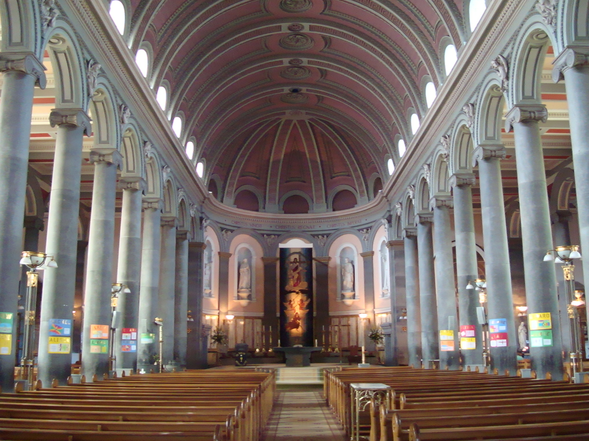 Photograph of Nave and Sanctuary, Longford Cathedral, Co Longford, Ireland